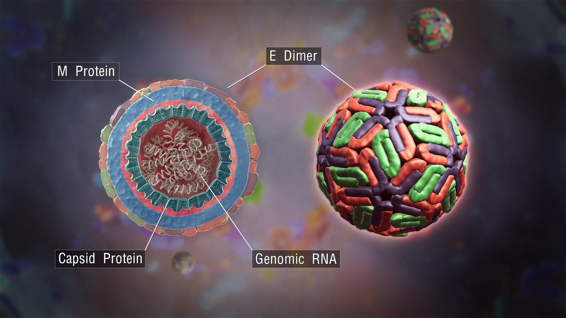 a 3d medical animation still shot of a dengue virus with cross section showing structural components